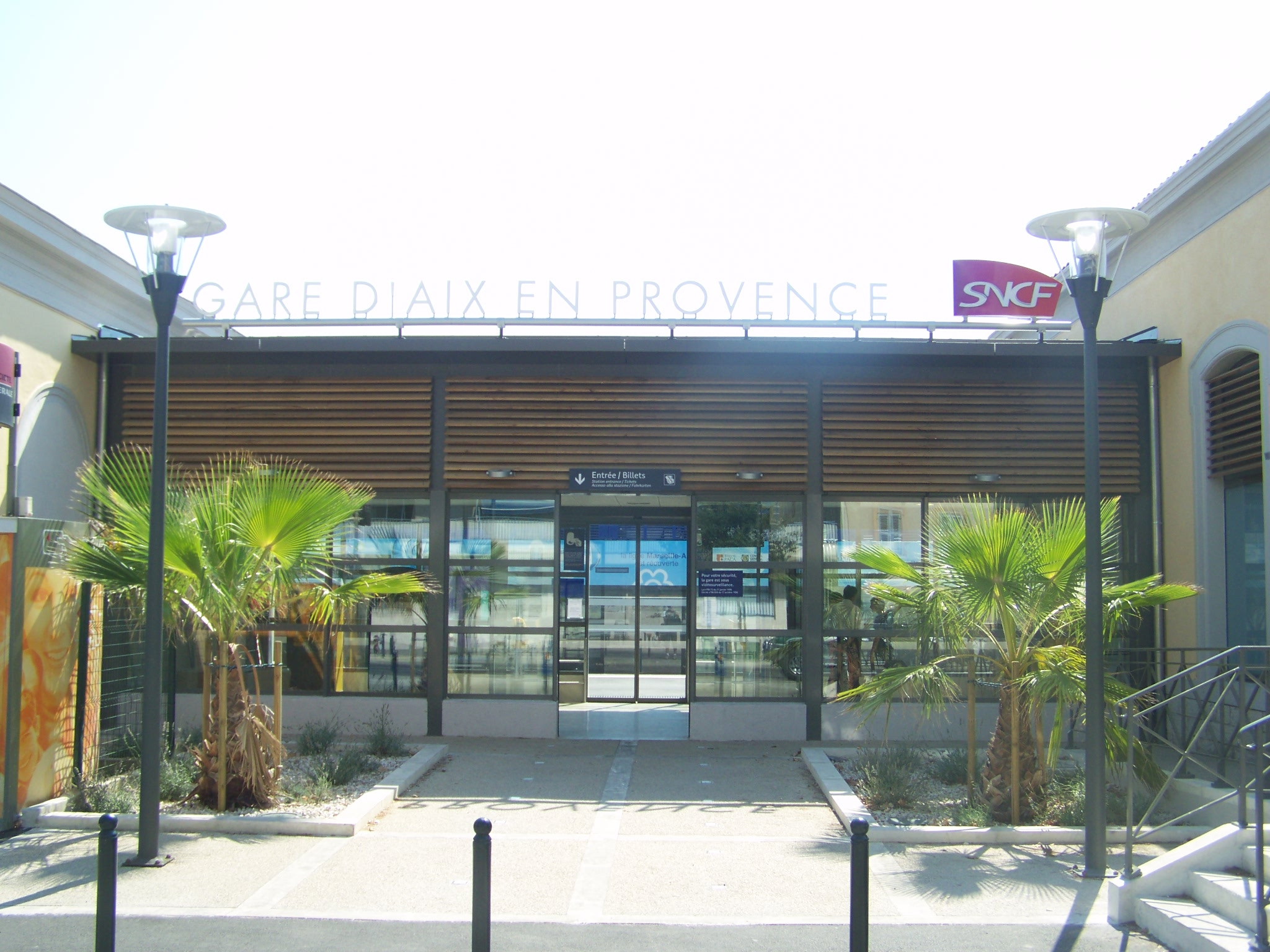 Modern entrance of city of Aix-en-Provence railway station in Bouches-du-Rhône, France.